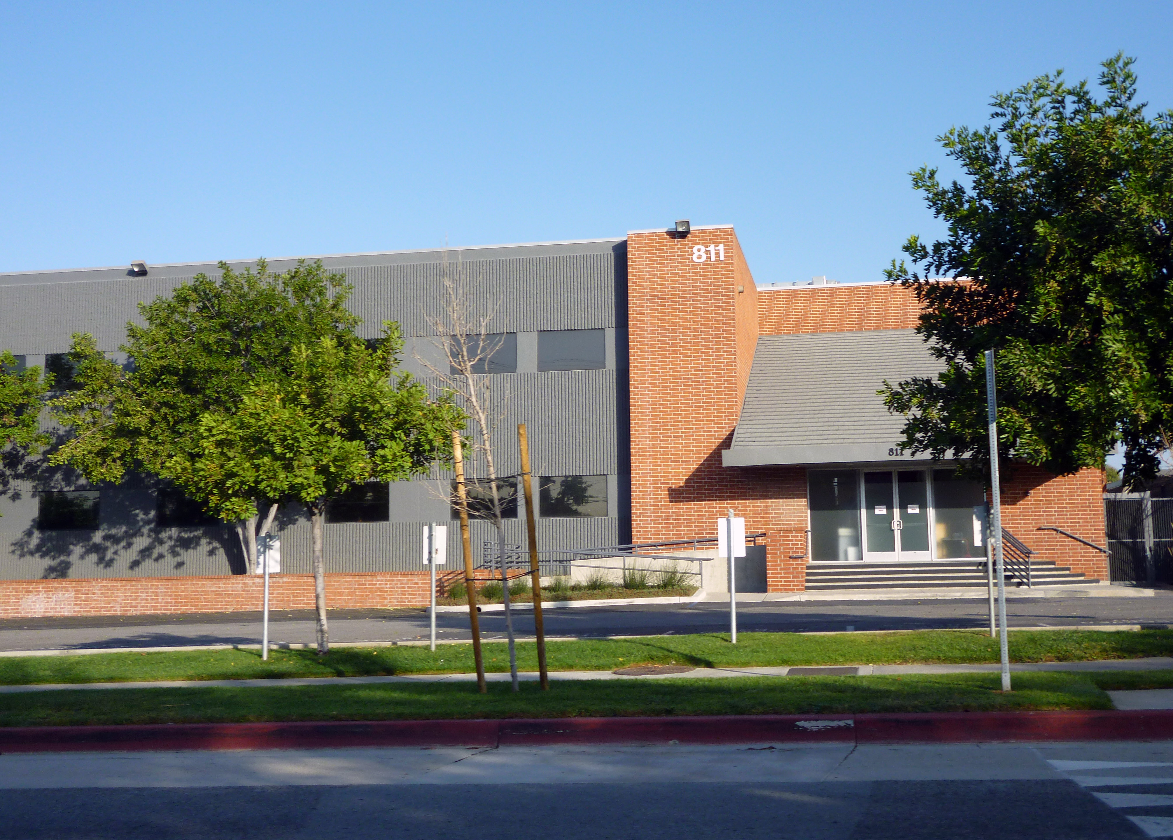 This building at 811 Sonora Avenue, Glendale, California was formerly home to Loral Librascope. At one time, it housed both DisneyToon Studios and Disney Television Animation. At the time this photo was taken, it was home only to part of Disney Television Animation (which also has offices in another building near Bob Hope Airport).